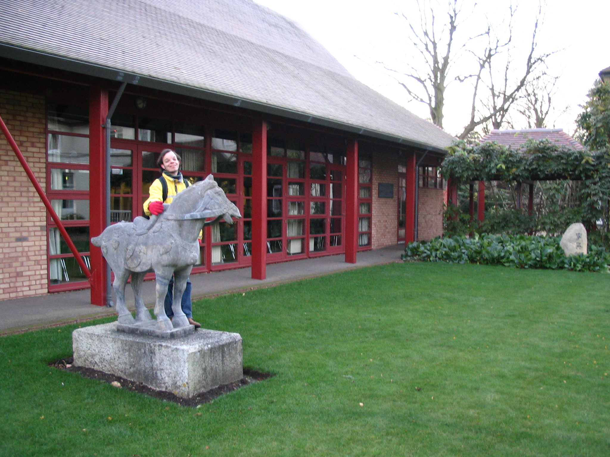 Wolfson College, Cambridge, showing the Chinese-style Lee Hall, a stone with Chinese-character inscriptions on the right, and a statue with a student next to it. Taken by Timwi in June 2006.